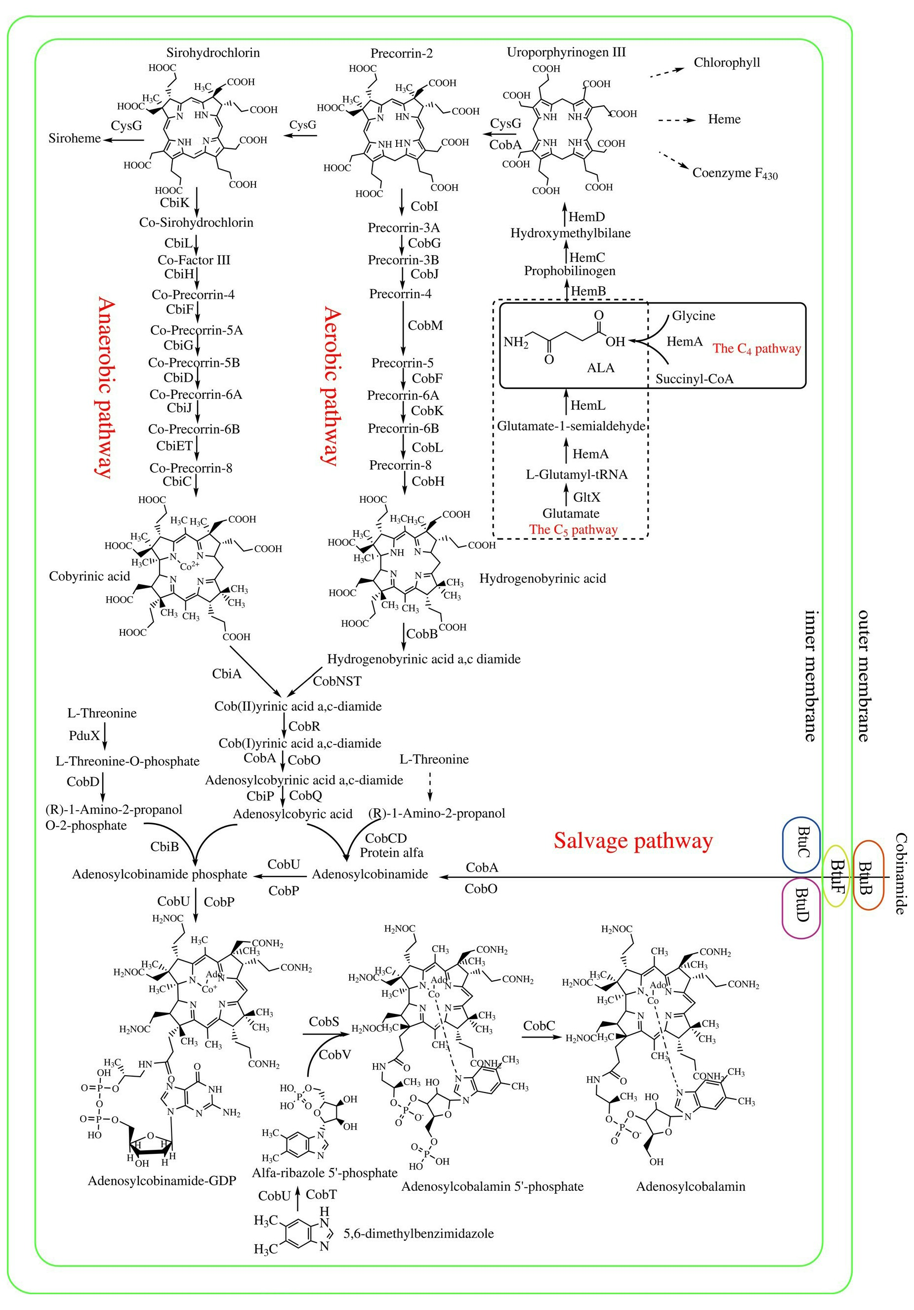 Biosynthetic pathways of tetrapyrrole compounds. ALA is synthesized by either the C4 or the C5 pathway. Adenosylcobalamin is synthesized via the de novo or via salvage pathways. The enzymes shown in the adenosylcobalamin biosynthetic pathway originate from P. denitrificans or S. typhimurium, which either use the aerobic pathway or the anaerobic pathway, respectively